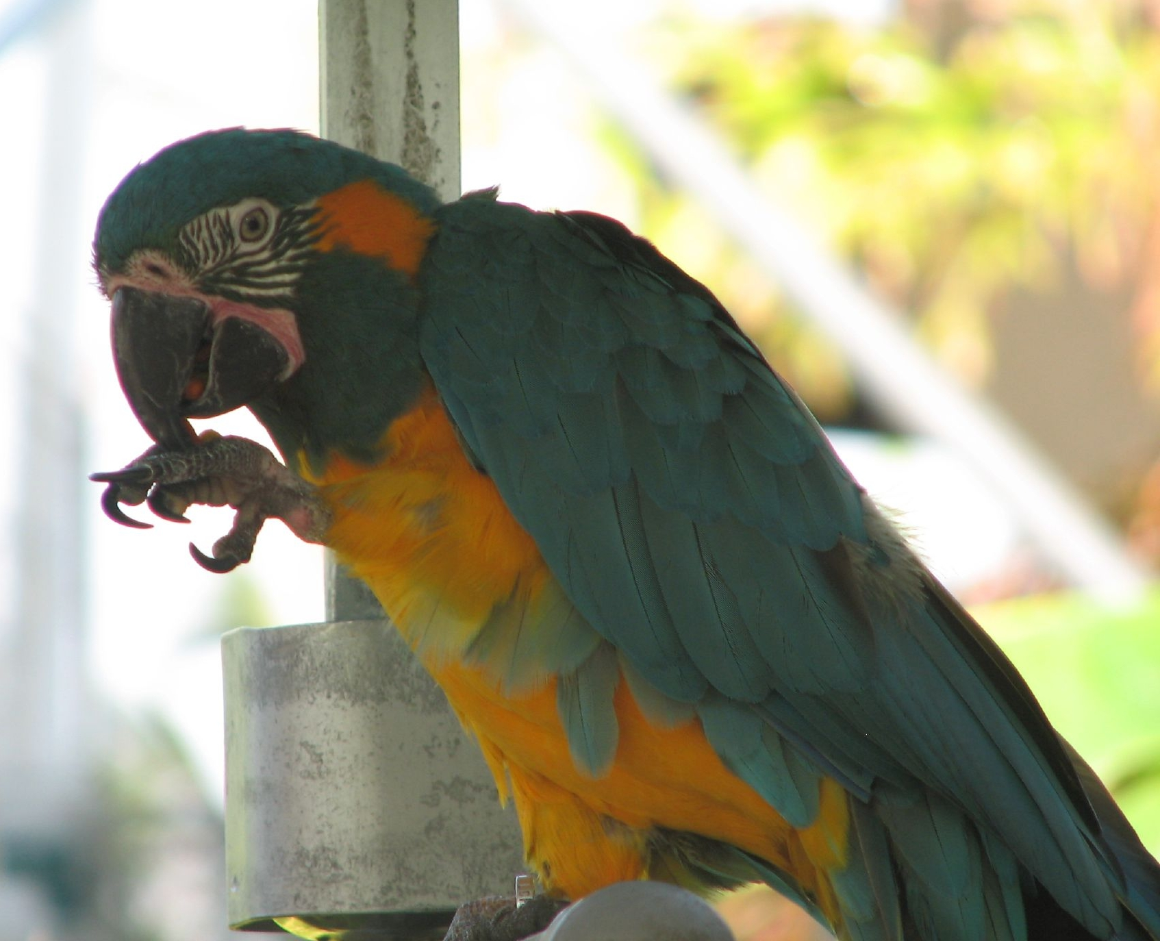 Blue-throated Macaw (Ara glaucogularis) on a perch and bringing one foot to its beak at Jungle Island, Florida, USA.